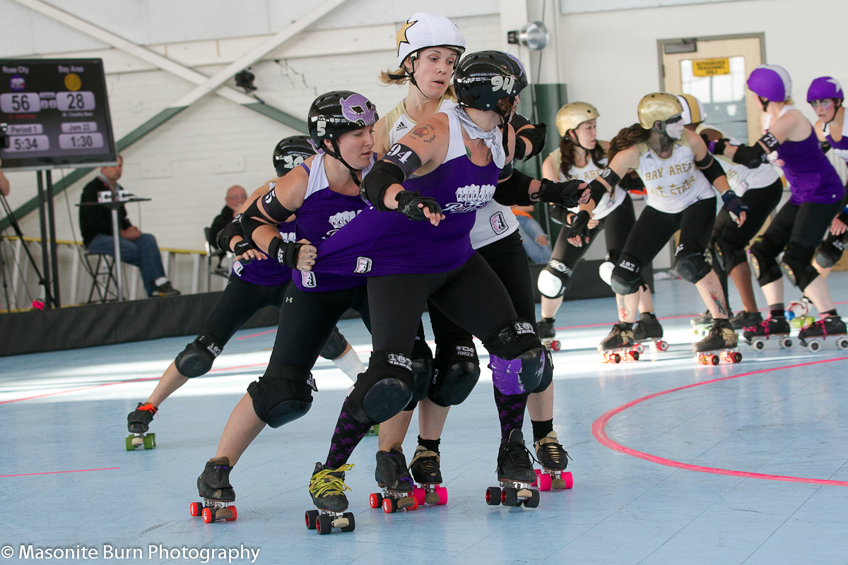 Bay Area (in white) take on Rose City (in purple) in "The Bay of Reckoning", the 2012 WFTDA West Region Playoffs. Both jammers are attempting to break through an elongated pack. Two Rose City blockers are attempting to contain the Bay City jammer, while a third "bridges" to the rest of the pack, ensure that her teammates remain in play. At the back, the Rose City pivot is trying to help her jammer break through a group of three Bay City blockers.